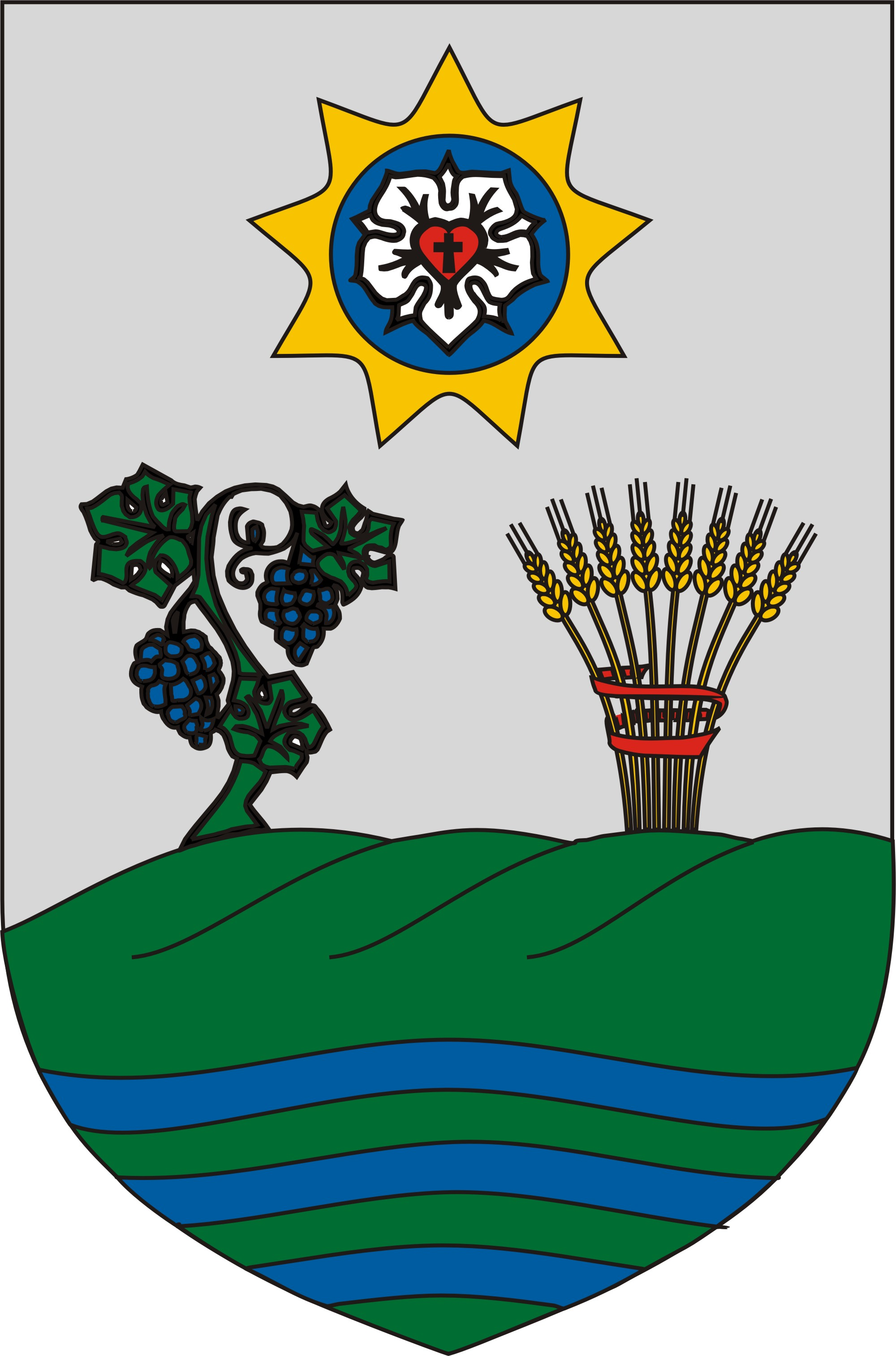 Coat of Arms:Sárszentlőrinc